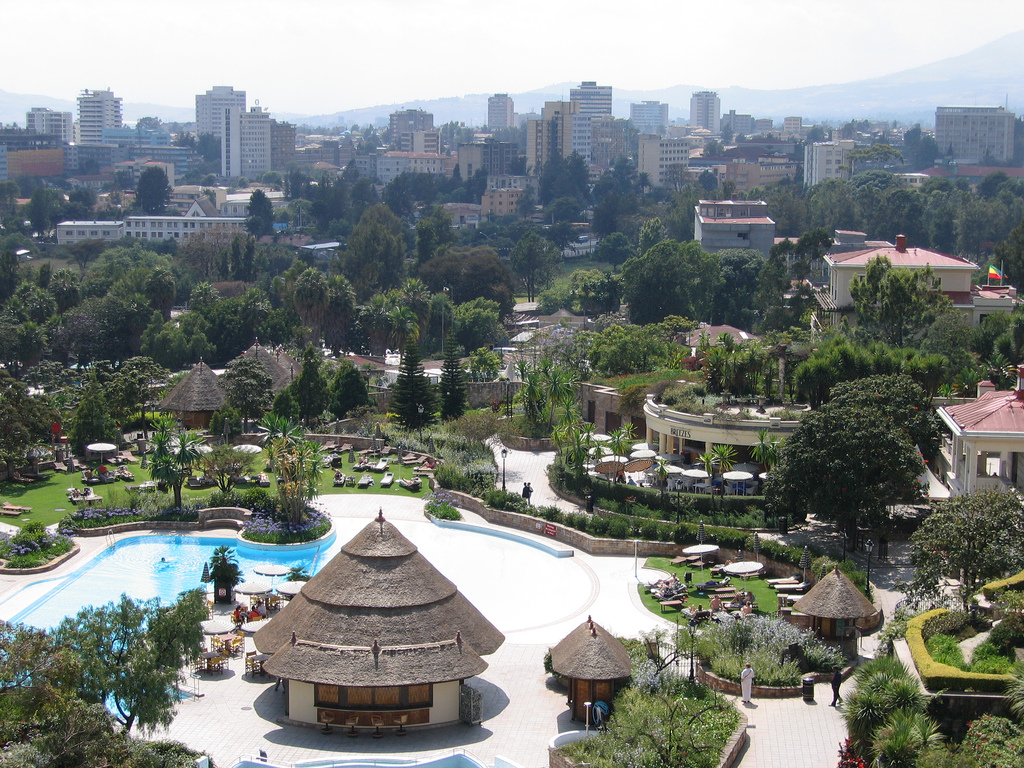 View from the Sheraton Hotel in Addis Ababa